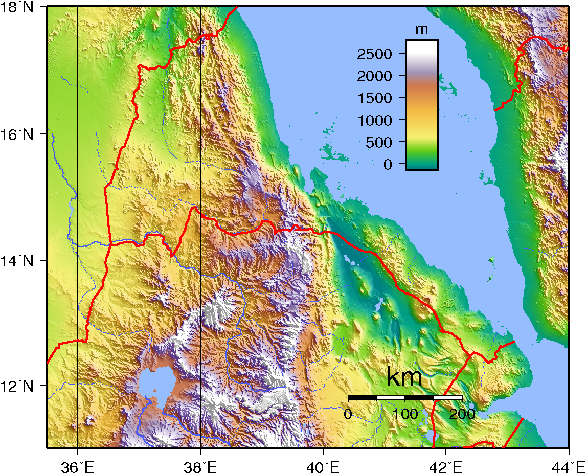 Topographic map of Eritrea. Created with GMT from public domain GLOBE data.